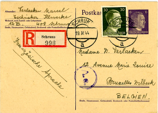 Recommended Postcard sent from SCHRUNS in April 1944 by an Electrician during imposed work at the Illwerke, Montafon Valley, Vorarlberg